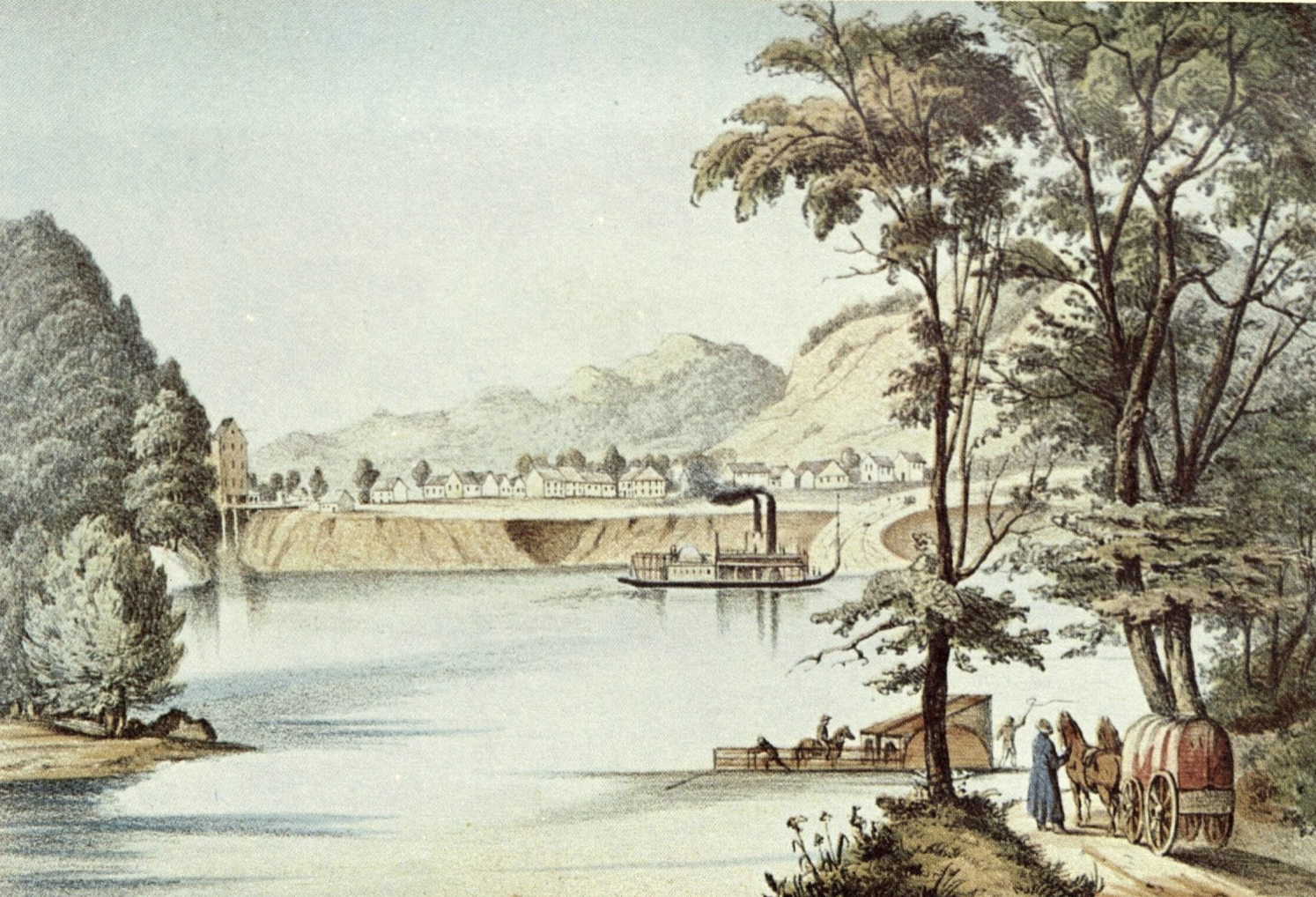 Illustration of Bellevue, Iowa from the Mississippi River facing west. Created by Henry Lewis on his expedition and documentation of the Upper Mississippi River in 1848 and published in Das illustrirte Mississippitha in 1857.